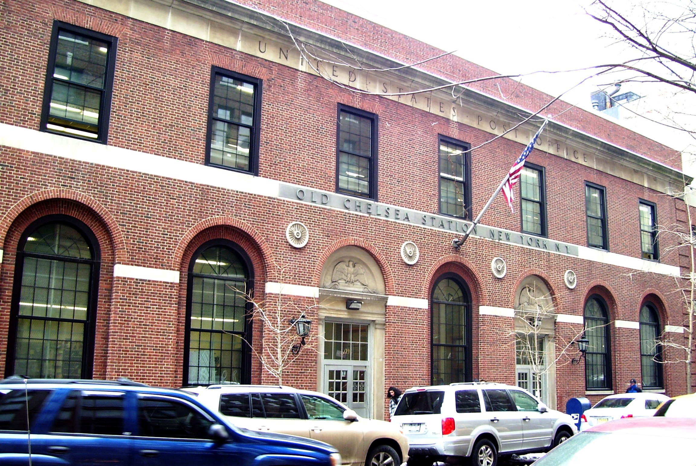 The Old Chelsea Station Post Office at 217 West 18th Street between Seventh and Eighth Avenues in the Chelsea neighborhood of Manhattan, New York City.